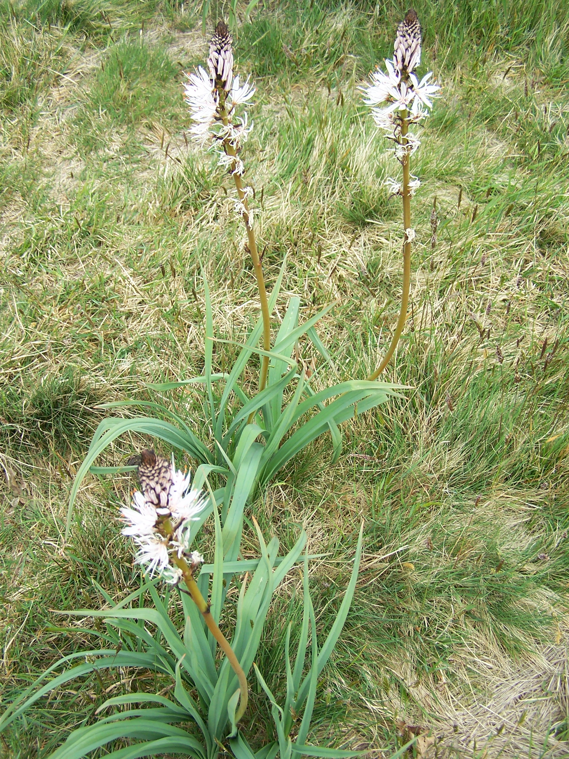 Asphodelus arrondeaui (Asphodèle d'Arrondeau) at the Chapelle Sainte-Barbe in Le Faouët, Brittany, France